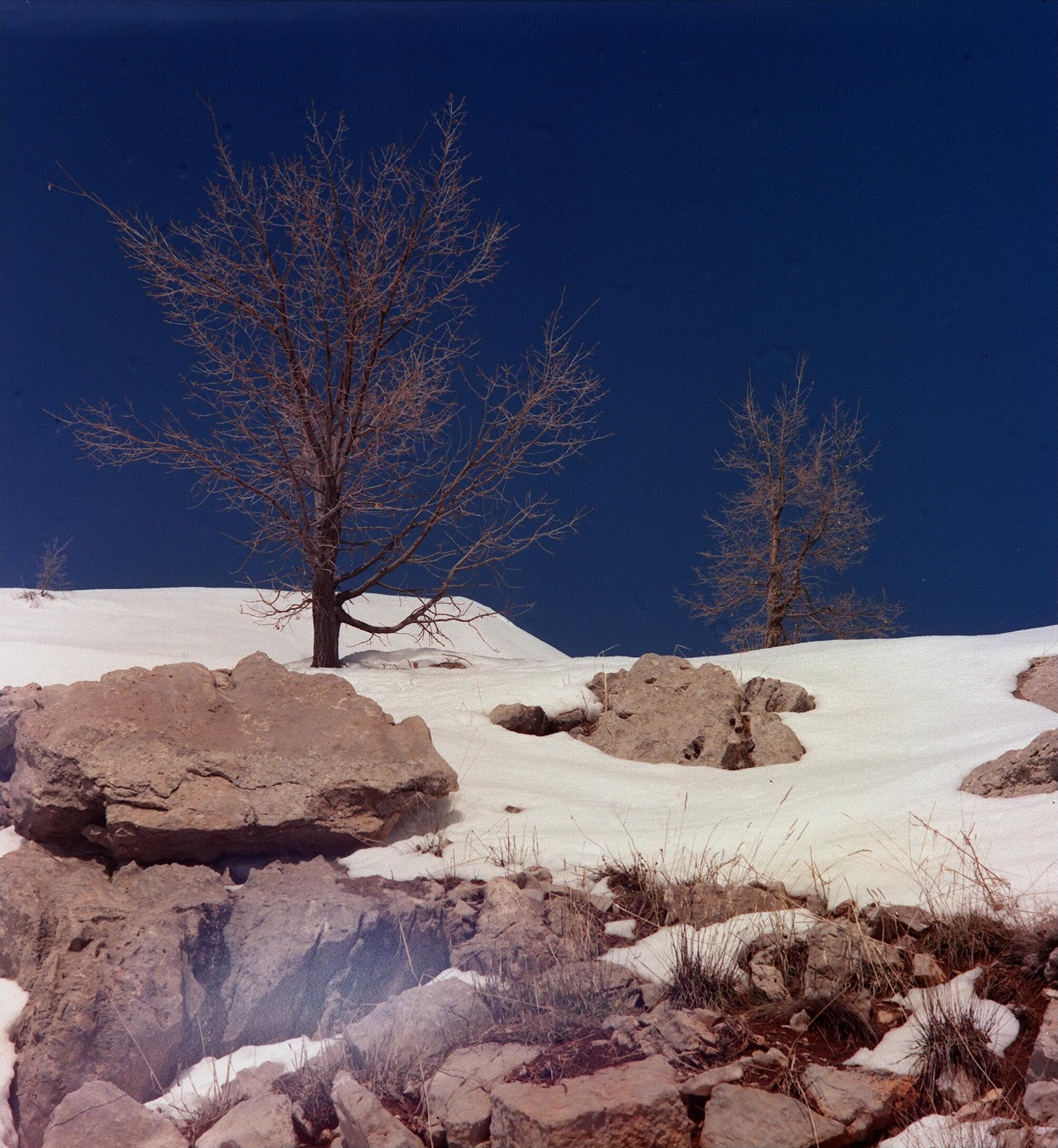 A typical northern scene on Mount Hermon in the Golan Heights. נוף טיפוסי חורפי של שלג על הר החרמון, ברמת הגולן. Photo: HOROVITZ DORON, 02/02/1991